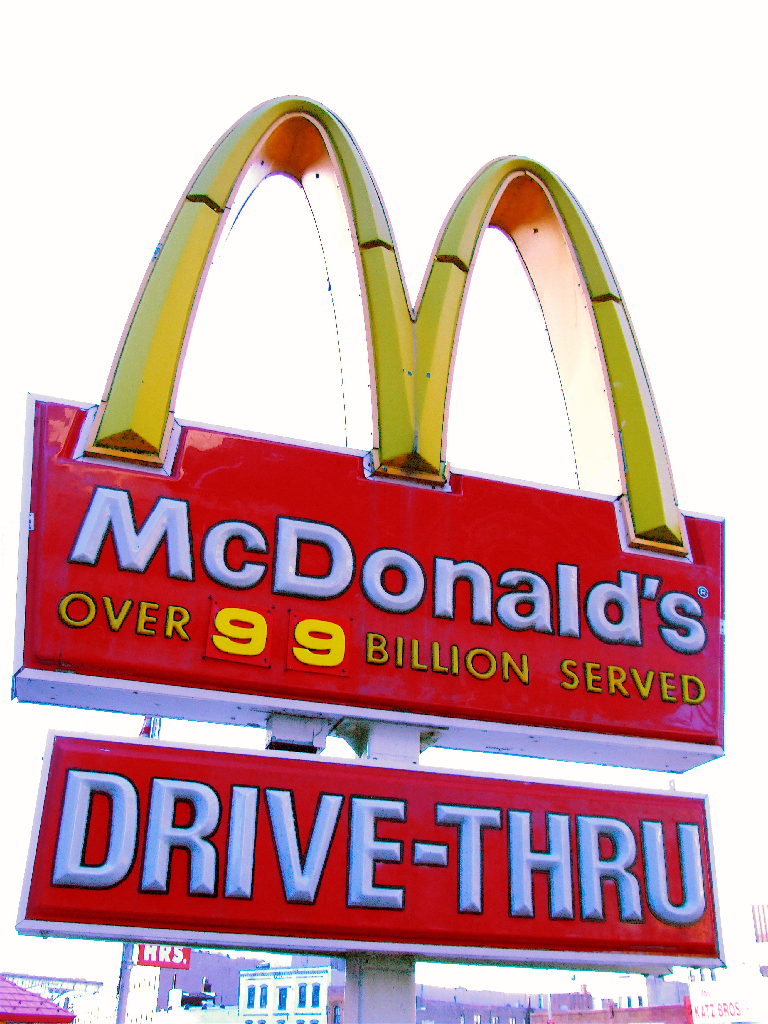 McDonalds' sign in Harlem.